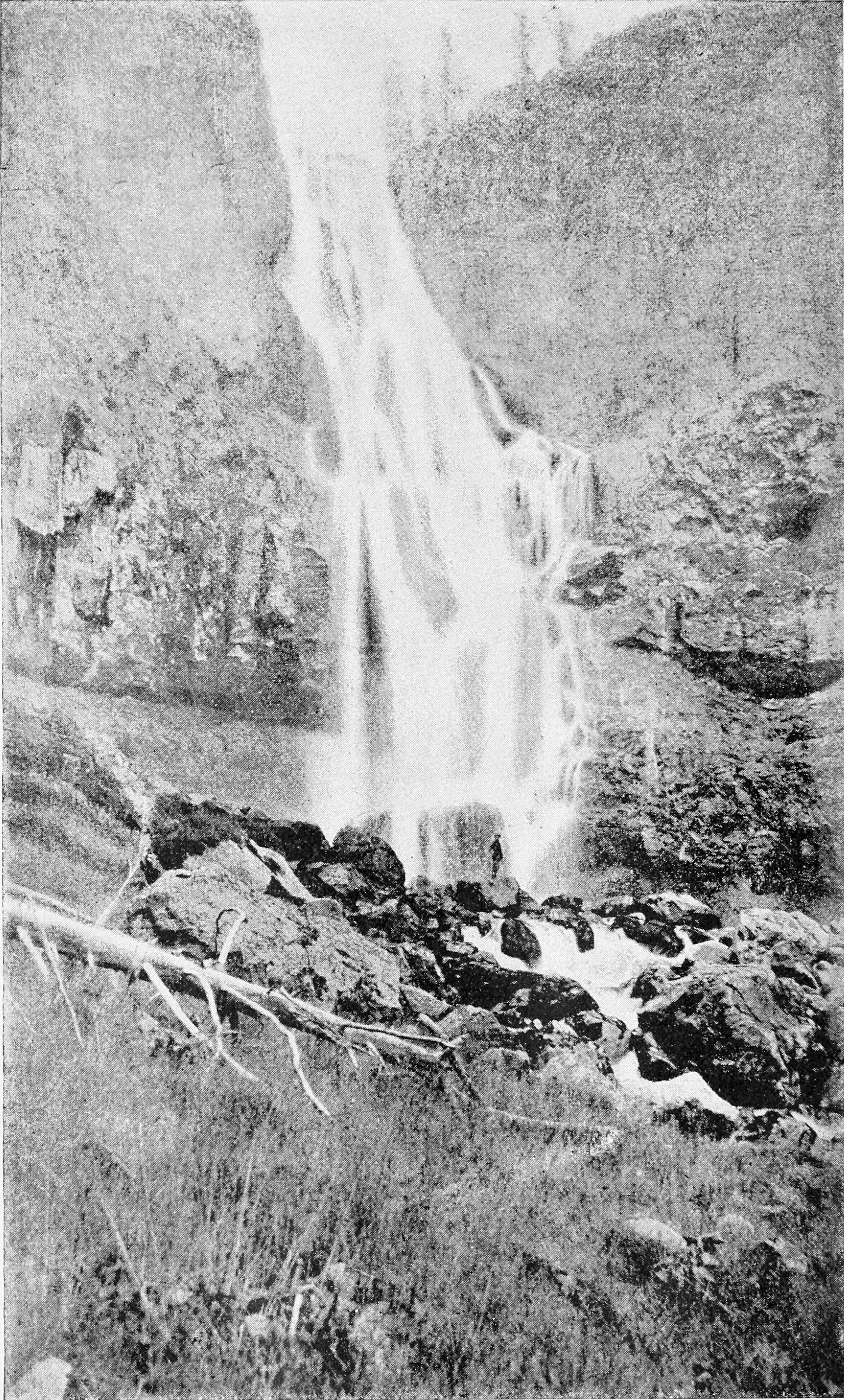 Osprey Falls of Gardiner river